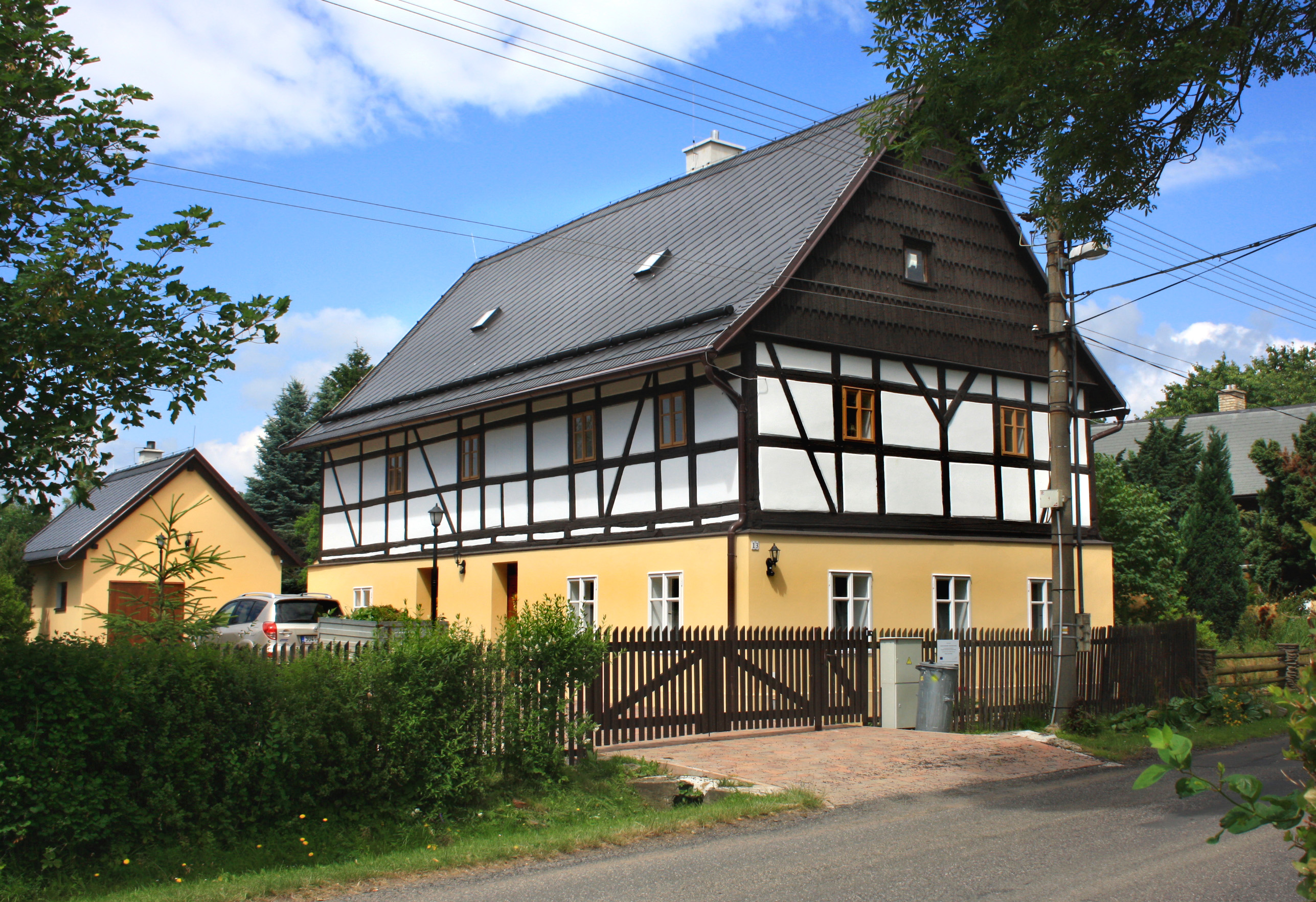 Protected homestead in Boleboř, Czech Republic